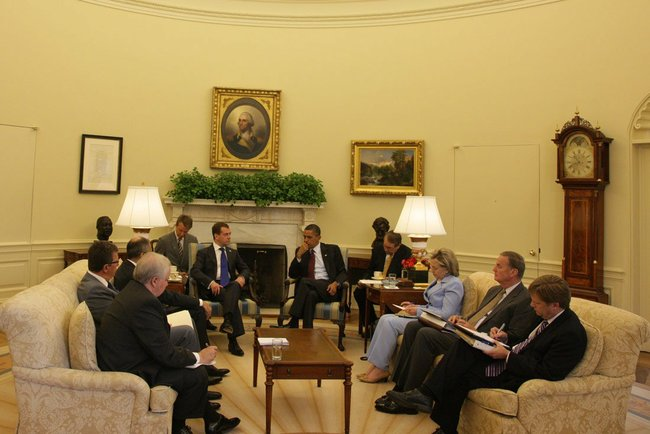 Russian-American talks.